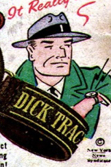 Dick Tracy